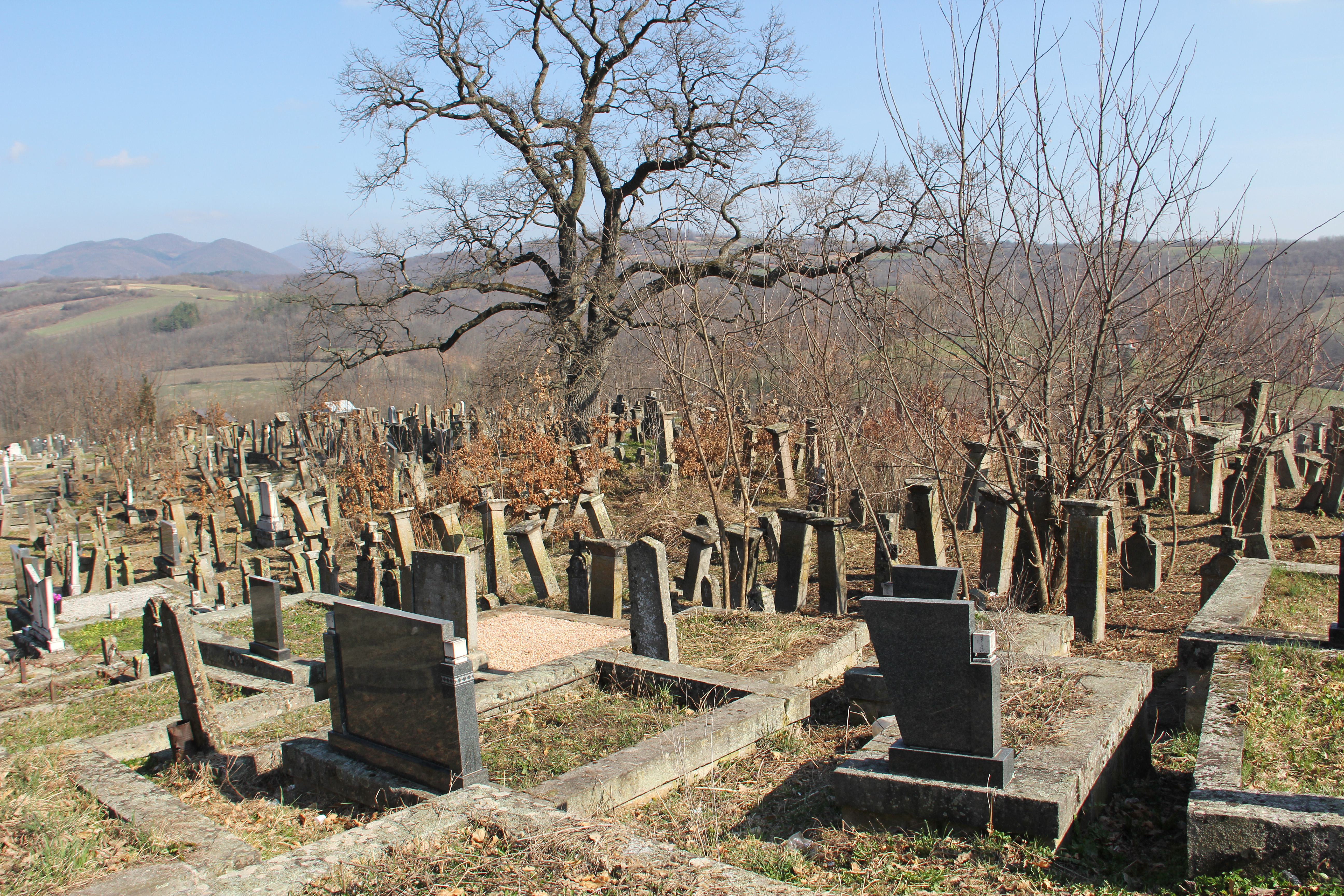 Old gravestones at the cemetery in the village of Donja Vrbava (the municipality of Gornji Milanovac), Serbia.